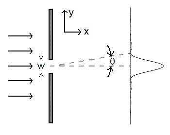 Single slit diffraction schematics and diffraction patterns